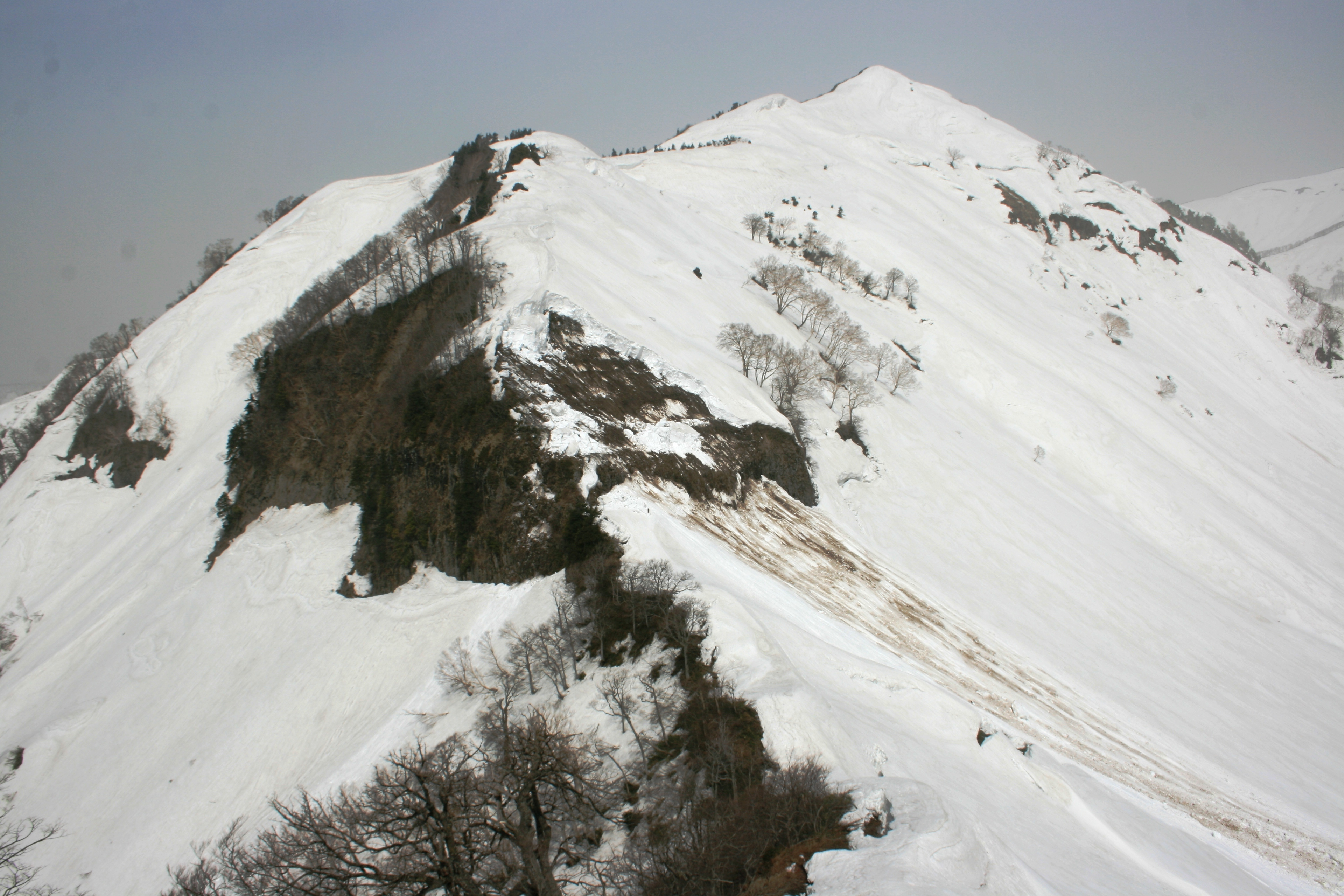 Block Avalanche in Ryōhaku Mountains ,japan.